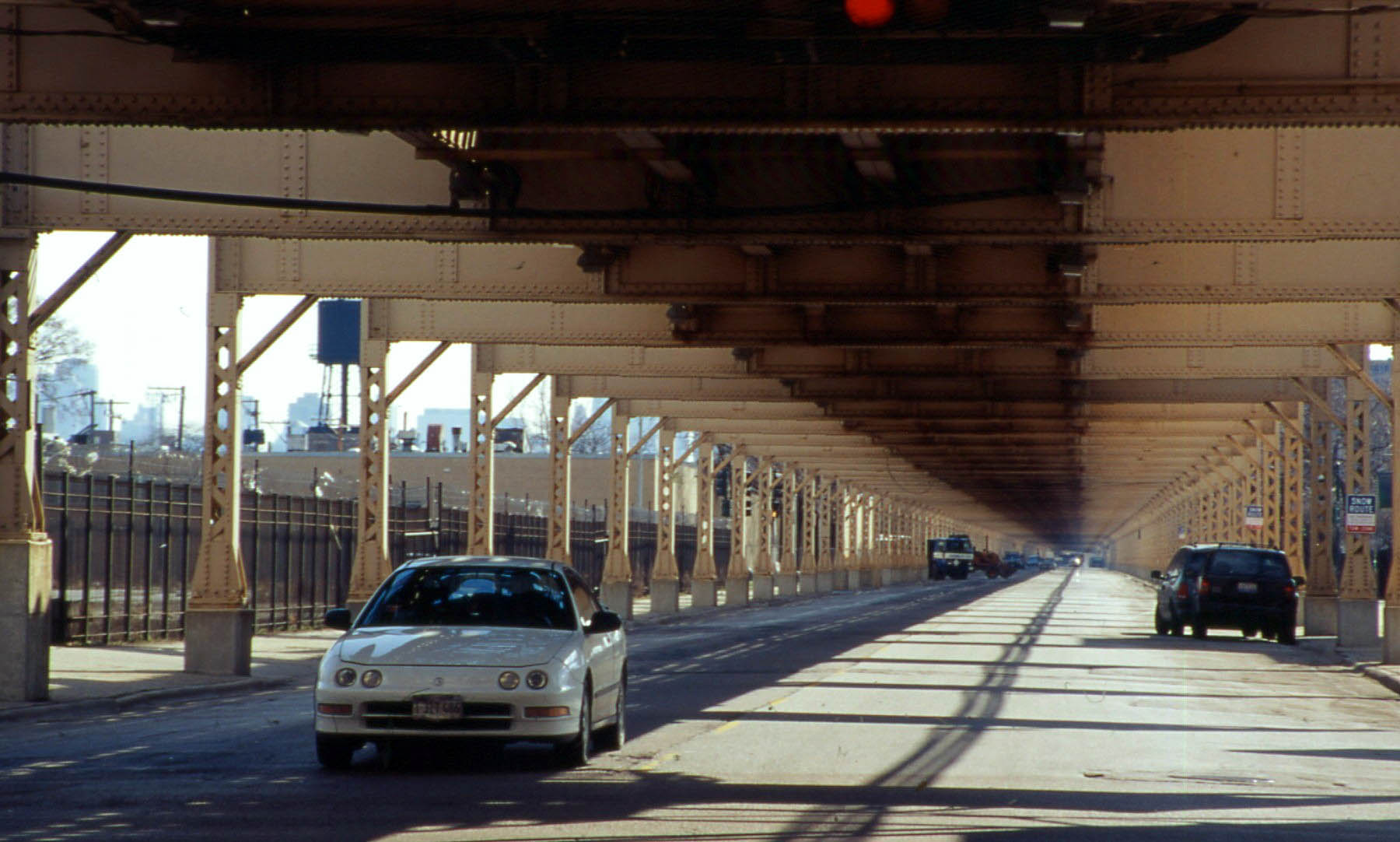 20020420 05 Lake St. near Western Ave. Chicago